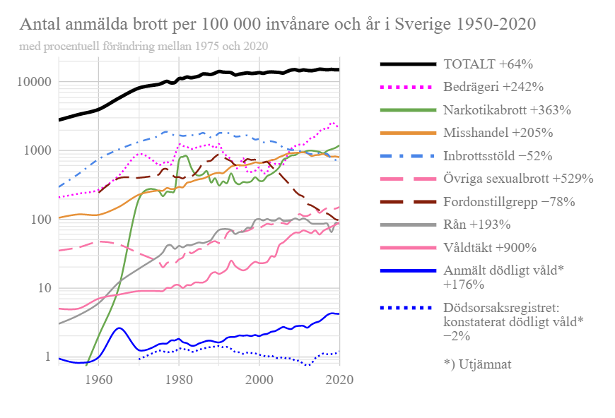 Relative number of crimes reported per 100,000 population in Sweden, 1950-2018, totally and for some crime types. In Swedish. The increase in percent since 1975 of the relative numbers are indicated in the legend. Logarithmic vertical axis. Based on the crime categorization by the Swedish National Council for Crime Prevention (Swedish: Brottsförebyggande rådet, abbreviated Brå). The legend is in descending order based on the crime frequency in 2018. Data sources: BRÅ: Anmälda brott per 100 000 invånare fr.o.m. år 1950. Socialstyrelsen: Dödsorsaksregistret 1997-2018 SCB: Döda efter dödsorsak 1969-1996 SCB: Medelbefolkning Note that the number of suspected murders reported to the police later were classified as accidents or suicides by the police and in the death cause register. BRÅ introduced a quantization error by rounding to nearest integer, causing especially the murder curve to be jerky, but I recalculated the values based on Swedish population, and also smoothed the murder curves using 3 year moving average.) Inspired by File:Number_of_crimes_reported_per_100,000_population_in_Sweden,_1993-2013.svg made by user:Gavlesson.